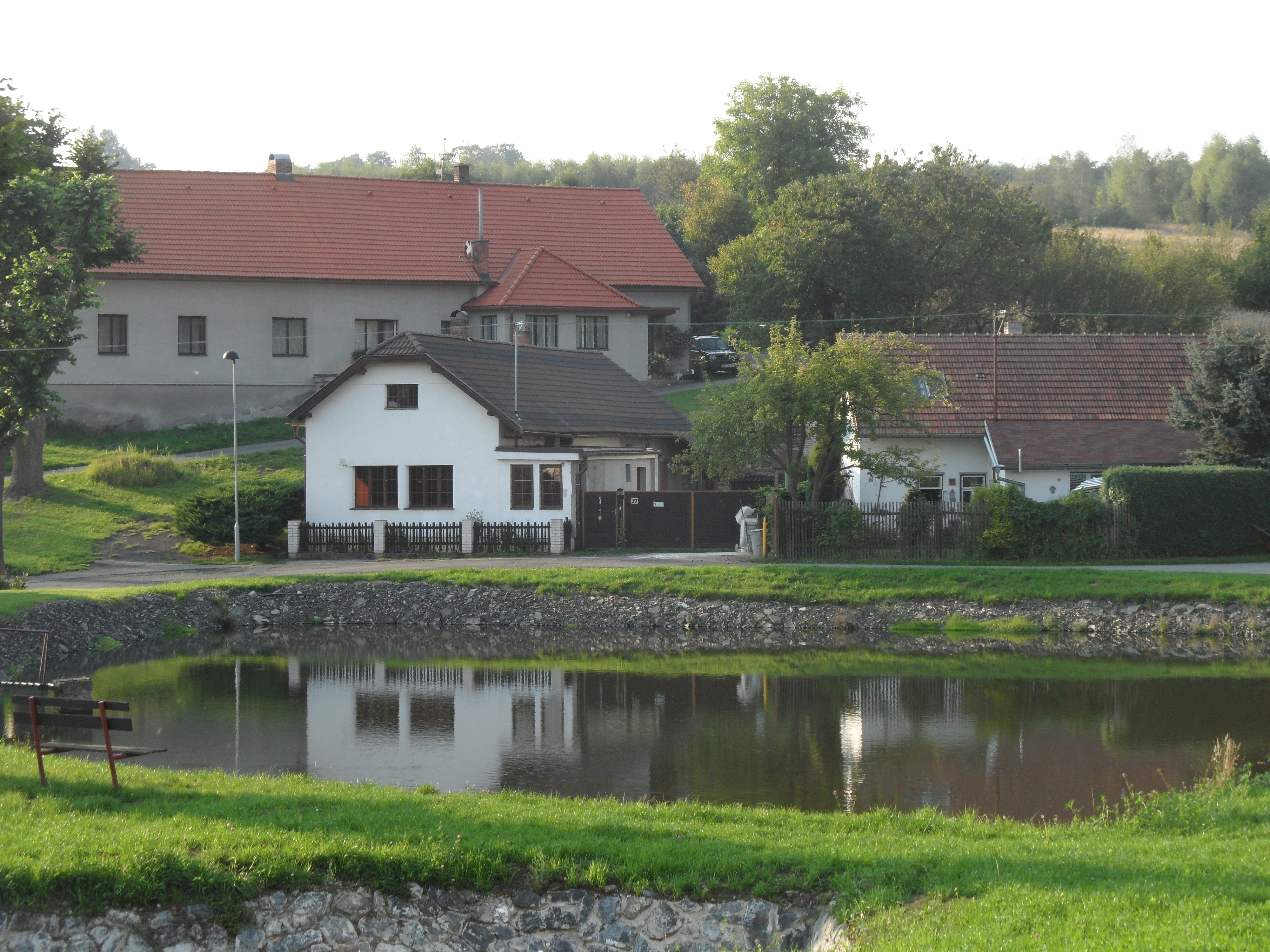 Želivec_(Zruč_nad_Sázavou) C. Houses behind Small Pond, Kutná Hora District, the Czech Republic.